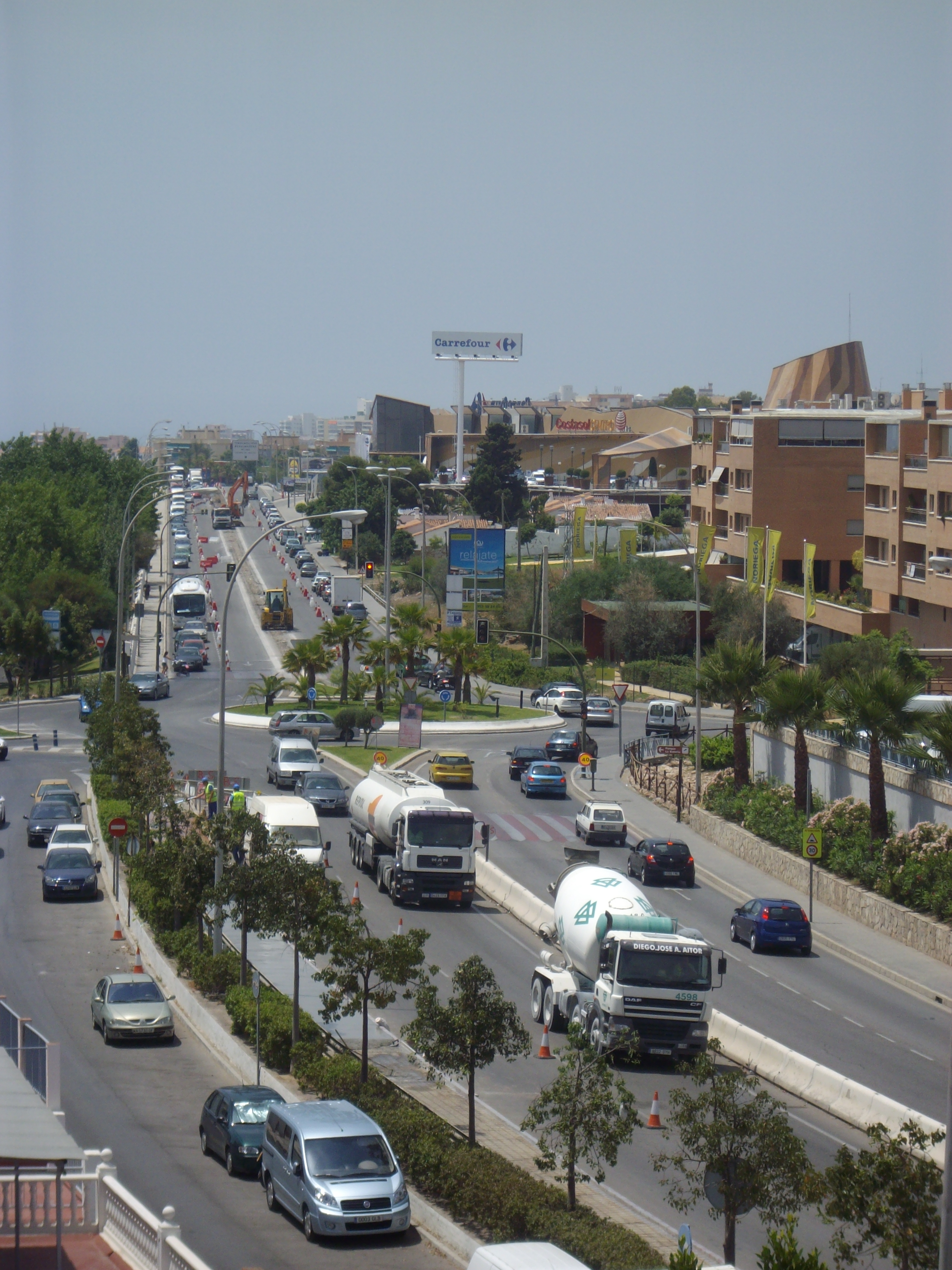 Working on upgrading in the N-340 at Torremolinos (Spain)